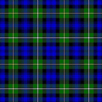 In the late eighteenth century this tartan was in use by the Duke of Argyll. The tartan is the Black Watch tartan with additional white and yellow stripes. Later Dukes sought to exclude the white and yellow stripes, which they claimed were only used to distinguish Chiefs. The Campbells also claimed that the Black Watch tartan was originally a Campbell tartan. (Source: Stewart, Donald. Setts of the Scottish Tartans). Thread count: (Stewart, Donald. Scotland's Forged Tartans) B132, k2, B2, k2, B6, k24, G52, W/Y6 G52 k24 B42 k2 B8. Thread count: (Stewart, Donald. Setts of the Scottish Tartans, Plate 19) B2 Bk2 B16 Bk16 G16 Bk2 W/Y4 Bk2 G16 Bk16 B2 Bk2 B2 Bk2 B16.